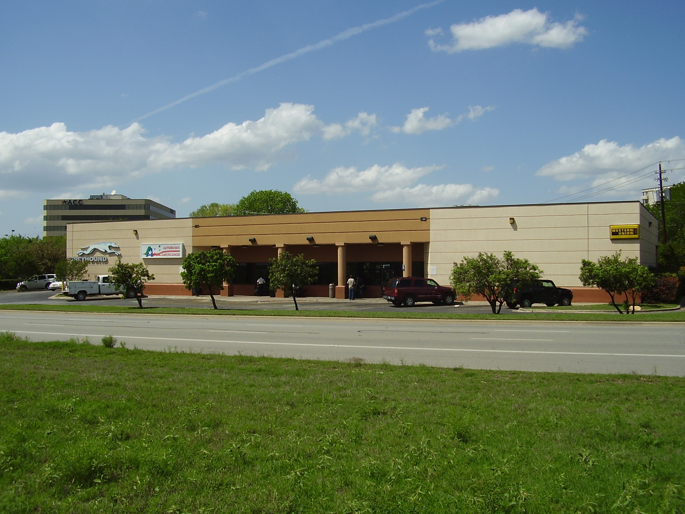 Austin Greyhound Lines Station